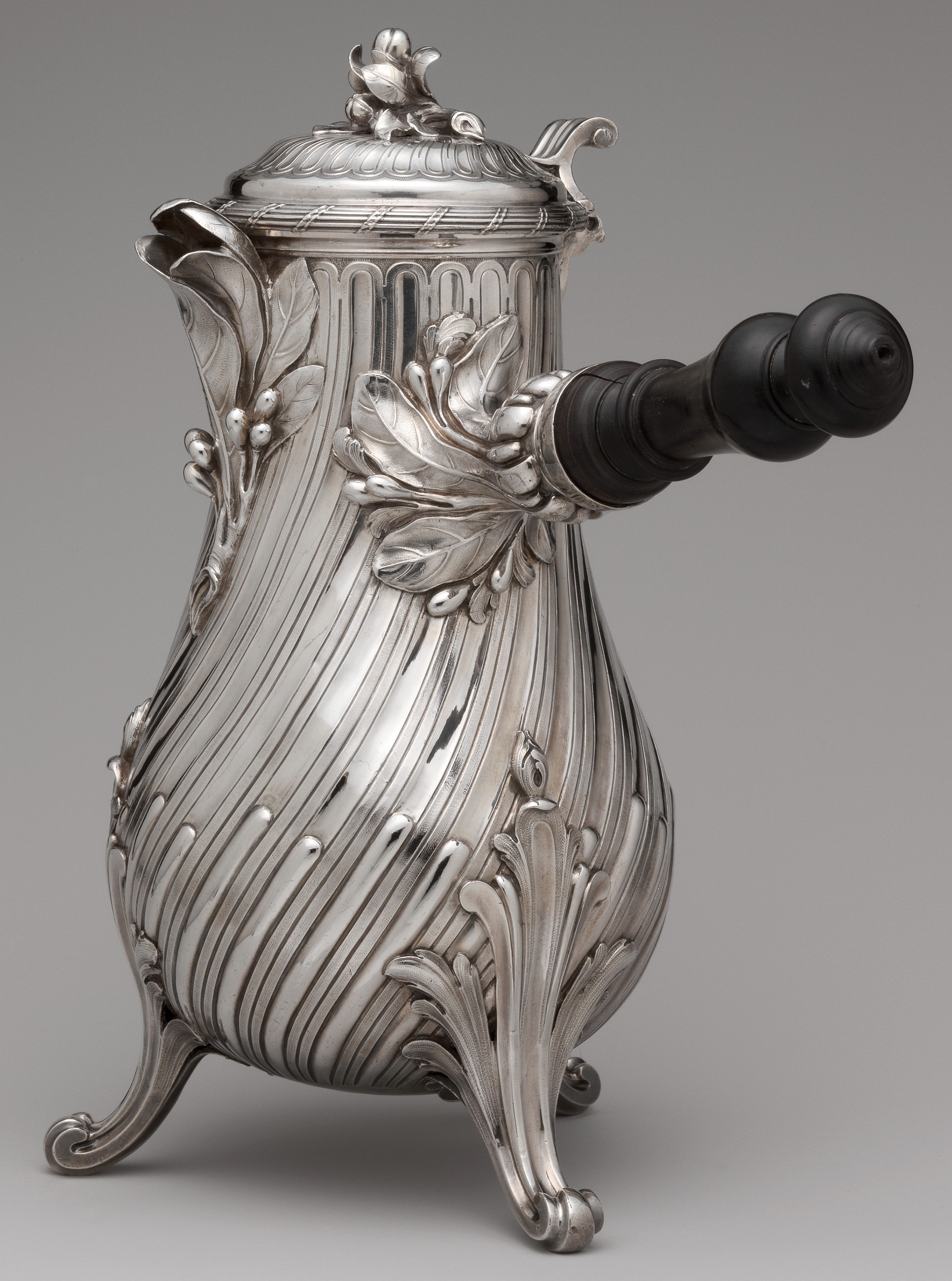 French, Paris; Coffeepot; Metalwork-Silver